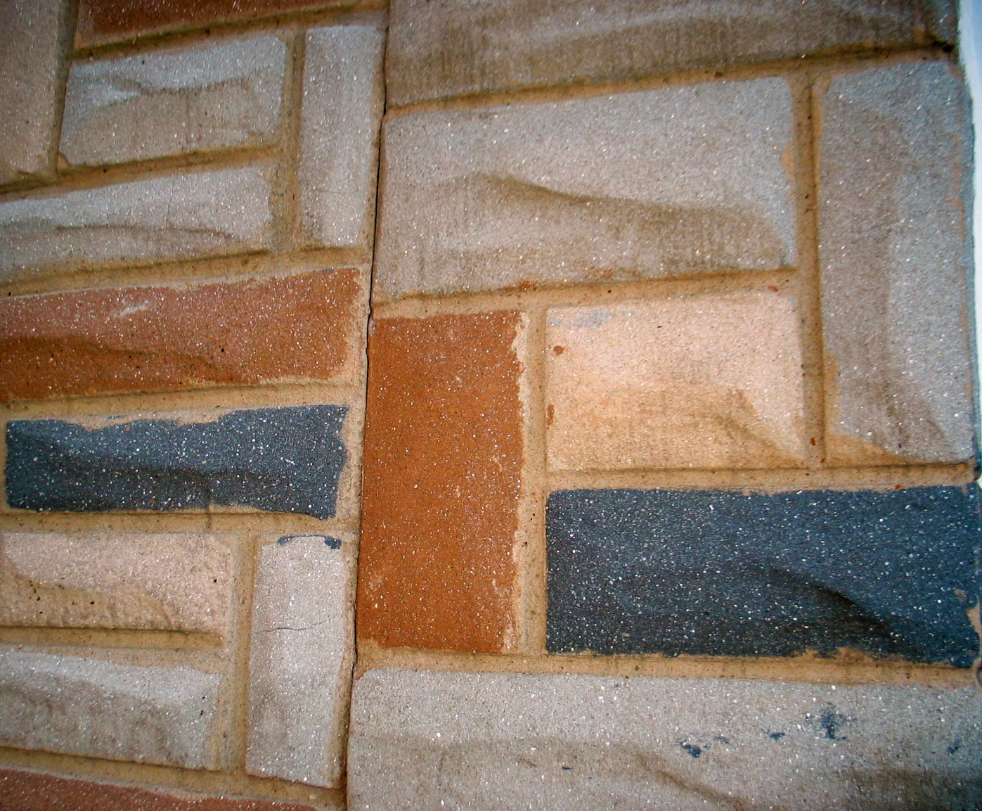 John Waters called it "the polyester of brick." Seen here in its natural habitat. Baltimore MD